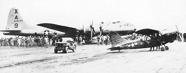 First B-29 to land on Iwo, 4 March 1945, and Marine observation plane are pictured together on Airfield Number 1. By 26 March, 36 Superforts had used the emergency facilities on the island Post-Work: W.Wolny